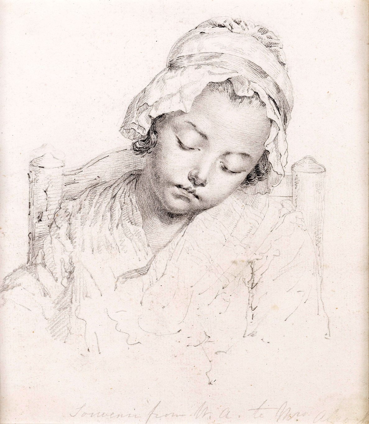 A Young Girl Asleep